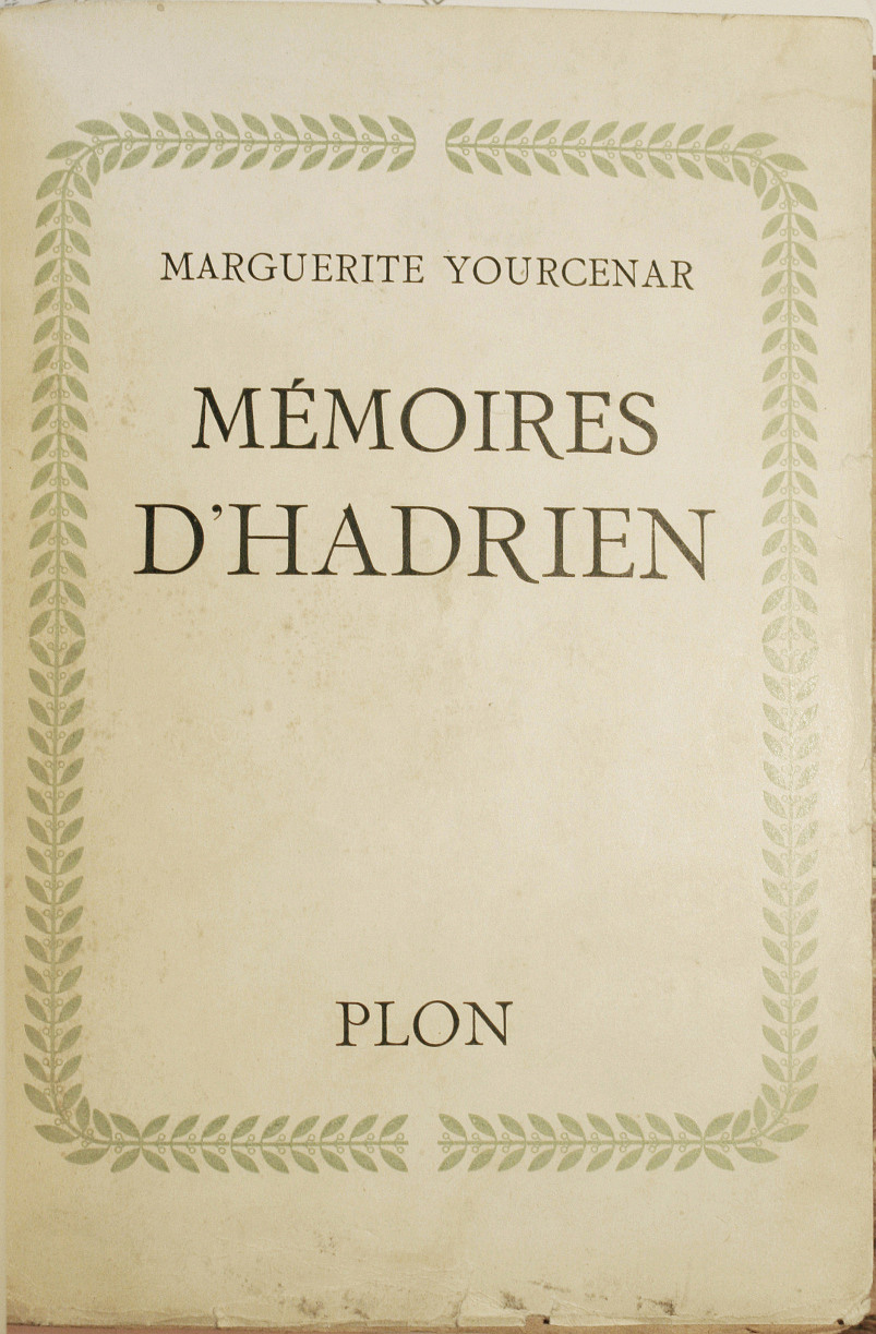 MEMOIRES D´HADRIEN. MARGUERITE YOURCENAR. LIBR. PLON, 1951 1st Edition, printed in 1955